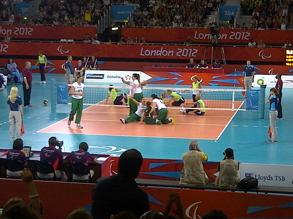 Earls Court London 2012.